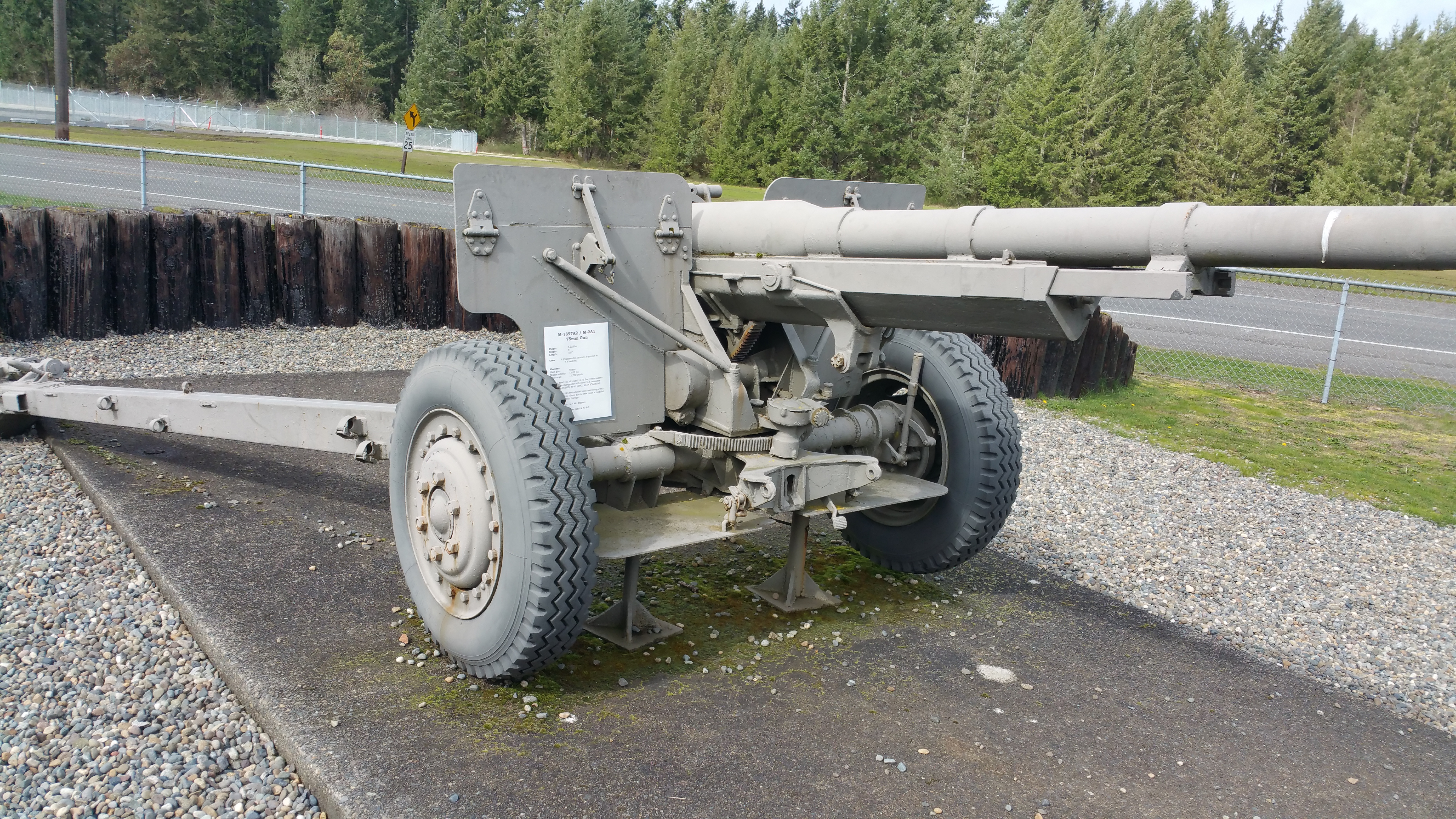 JBLM Artillery Gun displayed at Joint Base Lewis-McChord, Washington state. Weapon is labeled as an M1897A2 gun on an M2A3 mount. This is a French-made "French 75" barrel acquired in World War I on a mount developed in the 1930s.